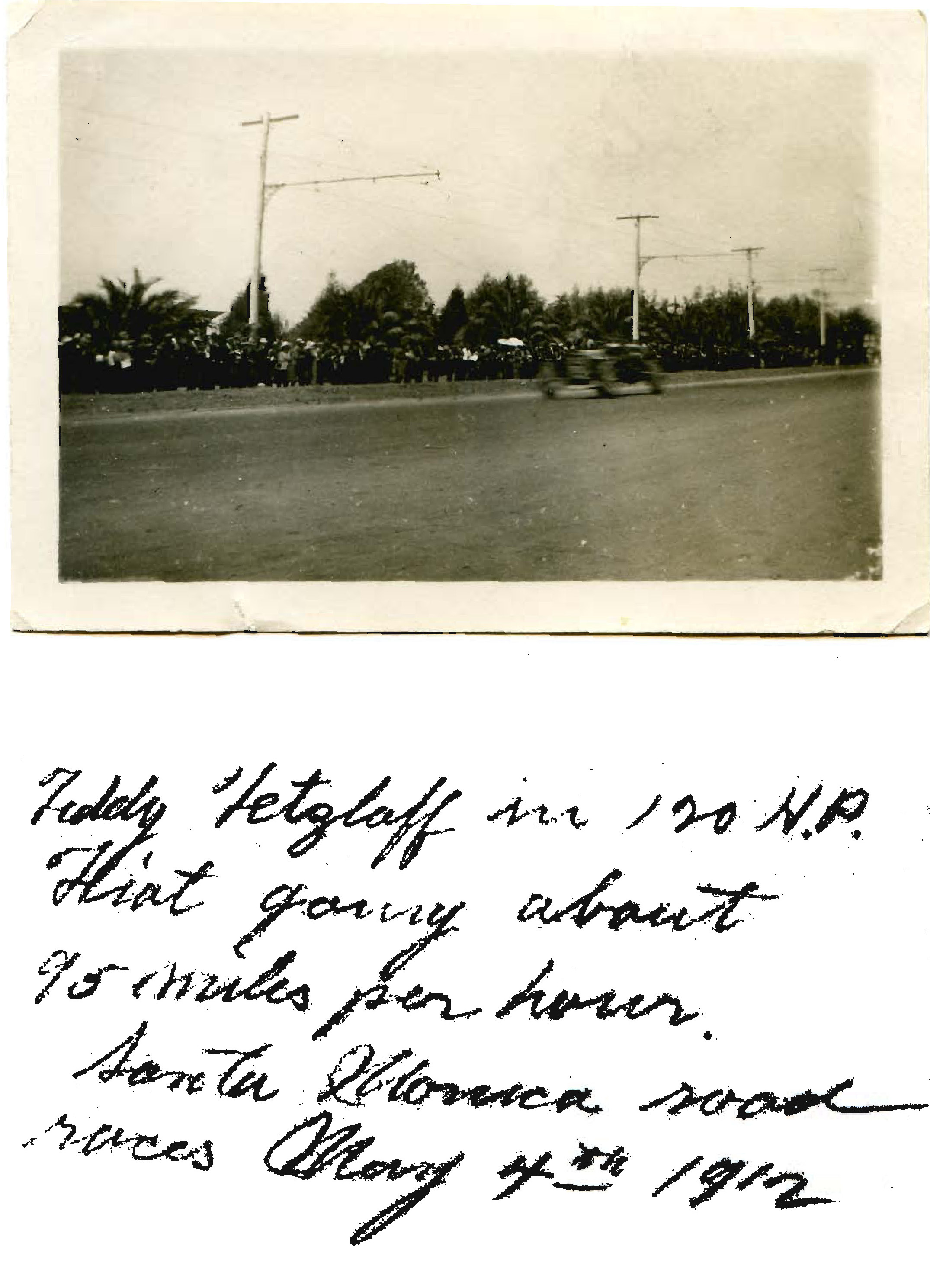 Photo taken by someone great grandfather and uncle of the 1912 Santa Monica Road Races.